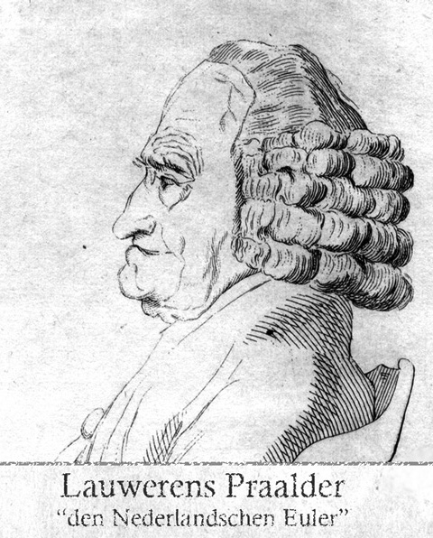 drawing of Lauwerens Praelder, Dutch scholar